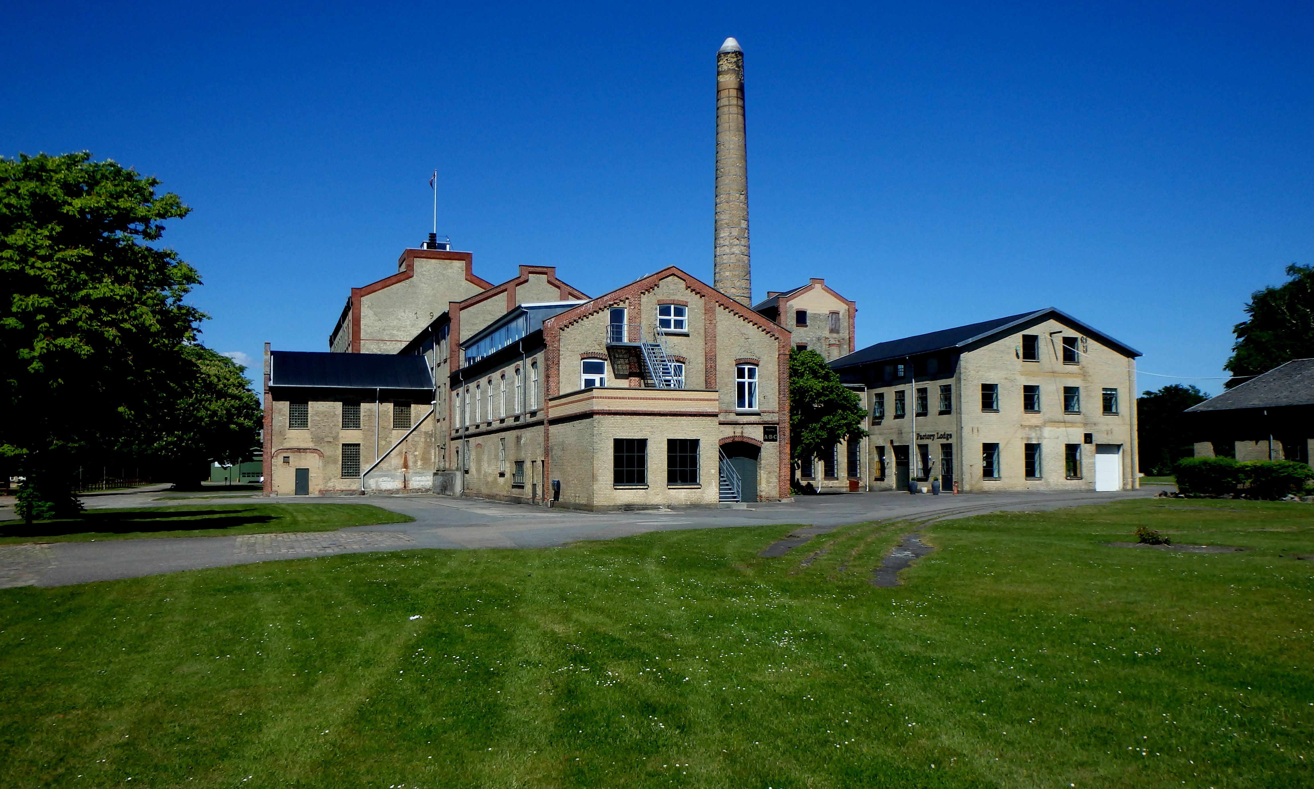 The former sugar factory (later paper factory) in Holeby on Lalland, Denmark